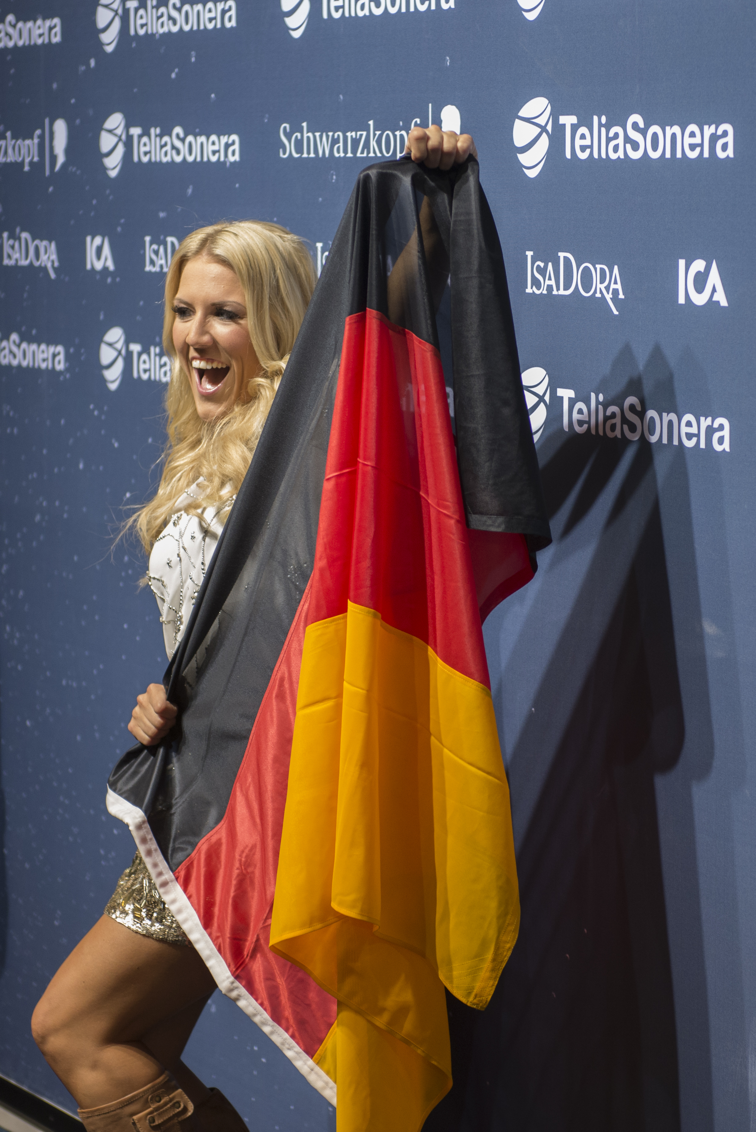 Natalie Horler from Cascada at a press conference during the Eurovision Song Contest 2013 Malmö. (Help translate this text)